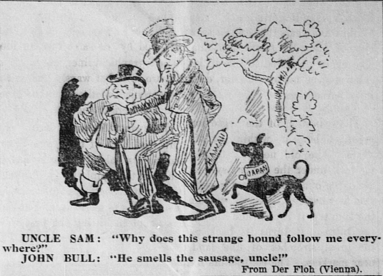 Uncle Sam (personification of the United States): "Why does this strange hound follow me everywhere?" John Bull (personification of Britain): "He smells the sausage, uncle!" From Der Floh (Vienna) This cartoon appeared when the United States was deciding whether to annex Hawaii as an American territory. In the late 1890s, the United States was determining whether to annex Hawaii and other territories including Cuba, Puerto Rico, and the Philippines. American political cartoons often illustrated the concept of manifest destiny, or America's geopolitical expansion through colonization. Some cartoons would draw the United States as Uncle Sam and the territories considered for annexation as children, as if the United States was their warden. The children would often be drawn with dark skin and sometimes with grass skirts, nappy hair, or bare feet. Historically, political cartoons expressed, shaped, reinforced, and reflected social, political, and racial attitudes and the sociopolitical structure of society. Therefore, some newspapers used cartoons as propaganda to shape public opinion. As mirrors to public knowledge, cartoons showed what the public did or did not know about events and scandals. About the historical political cartoons in Hawaii newspapers: The Hawaiian Gazette, August 20, 1897, Page 3, Image 3 From the University of Hawaii at Manoa Library